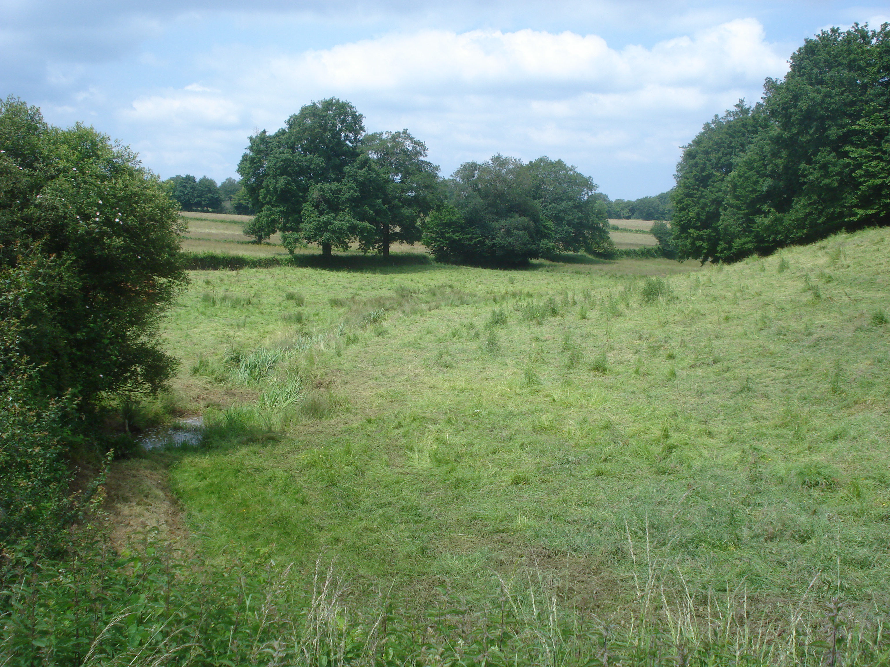 Indre (Fr) landscape near Pommiers